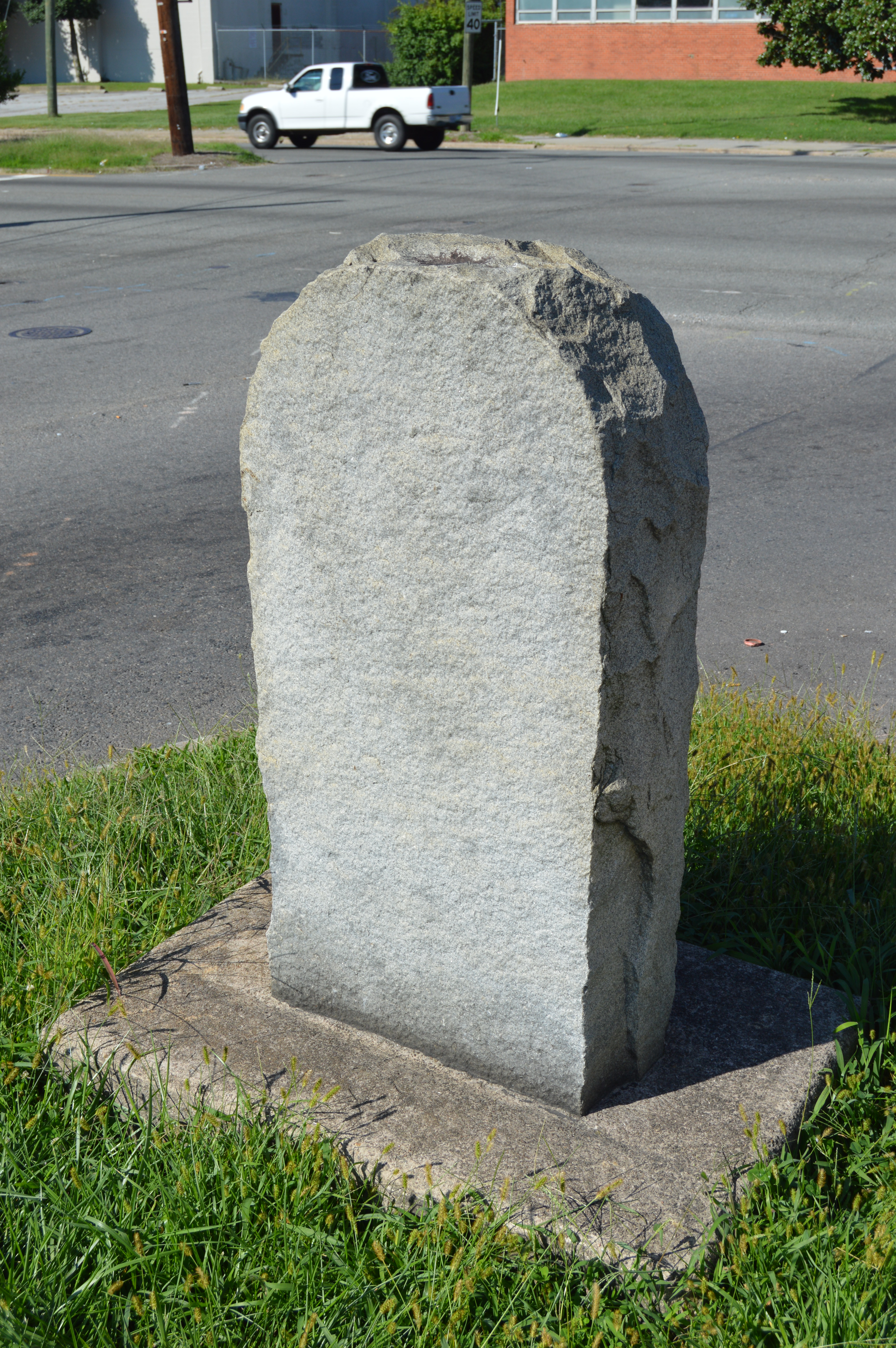 Eastern side of the Elliott Grays Marker for the Jefferson Davis Highway, located at the intersection of the highway (U.S. Routes 1 and 301) with Ingram Avenue and Harwood Streets in Richmond, Virginia, United States. Placed in 1929, it is listed on the National Register of Historic Places.